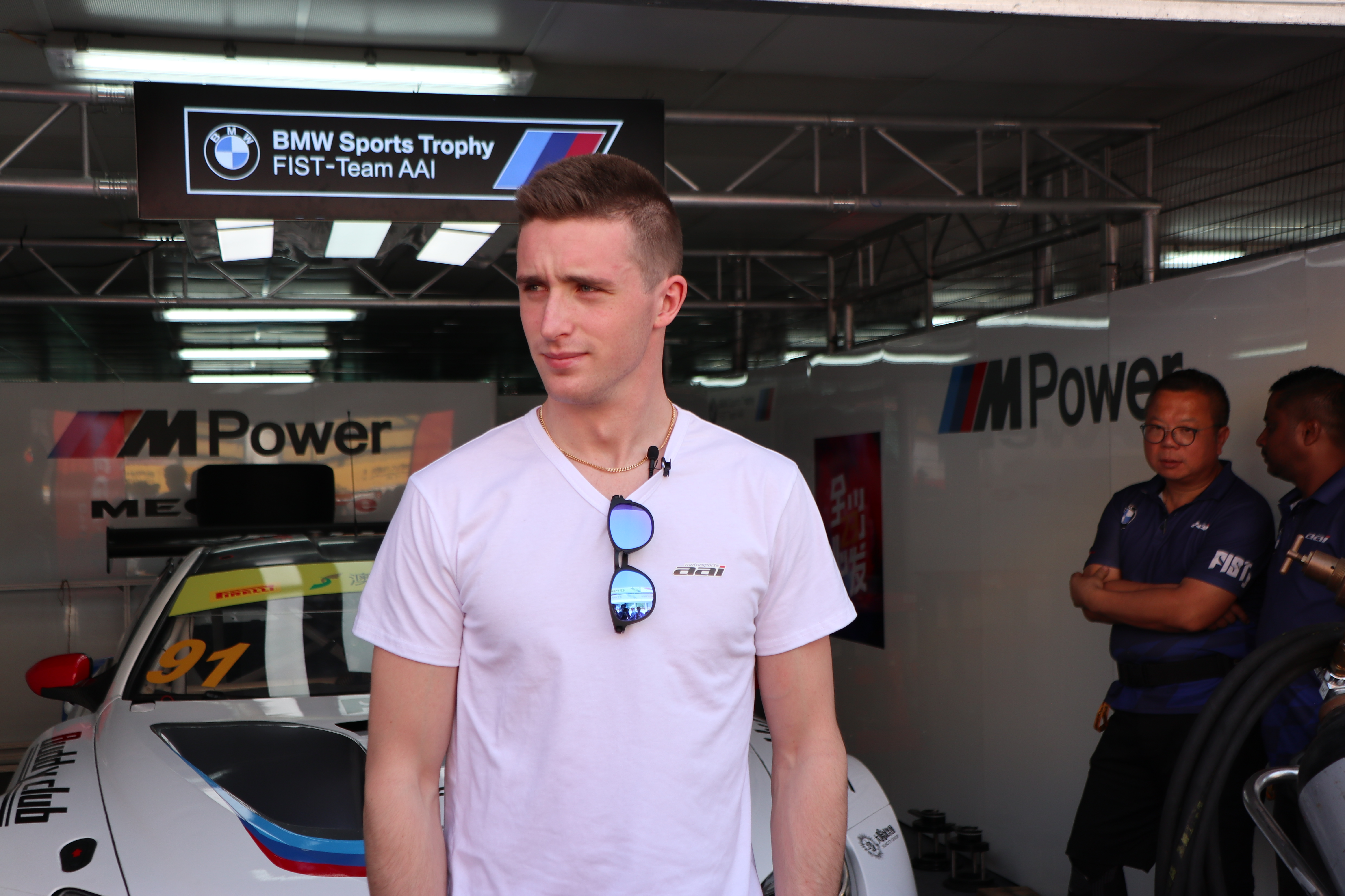 Joel Eriksson in 2019 Macau GP